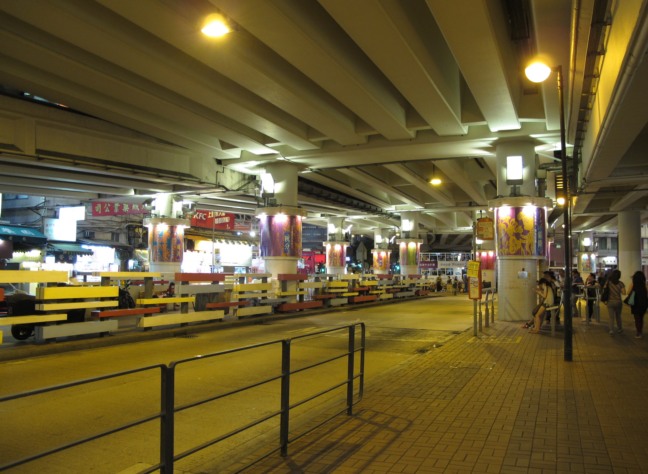 Canal Road Flyover Underground